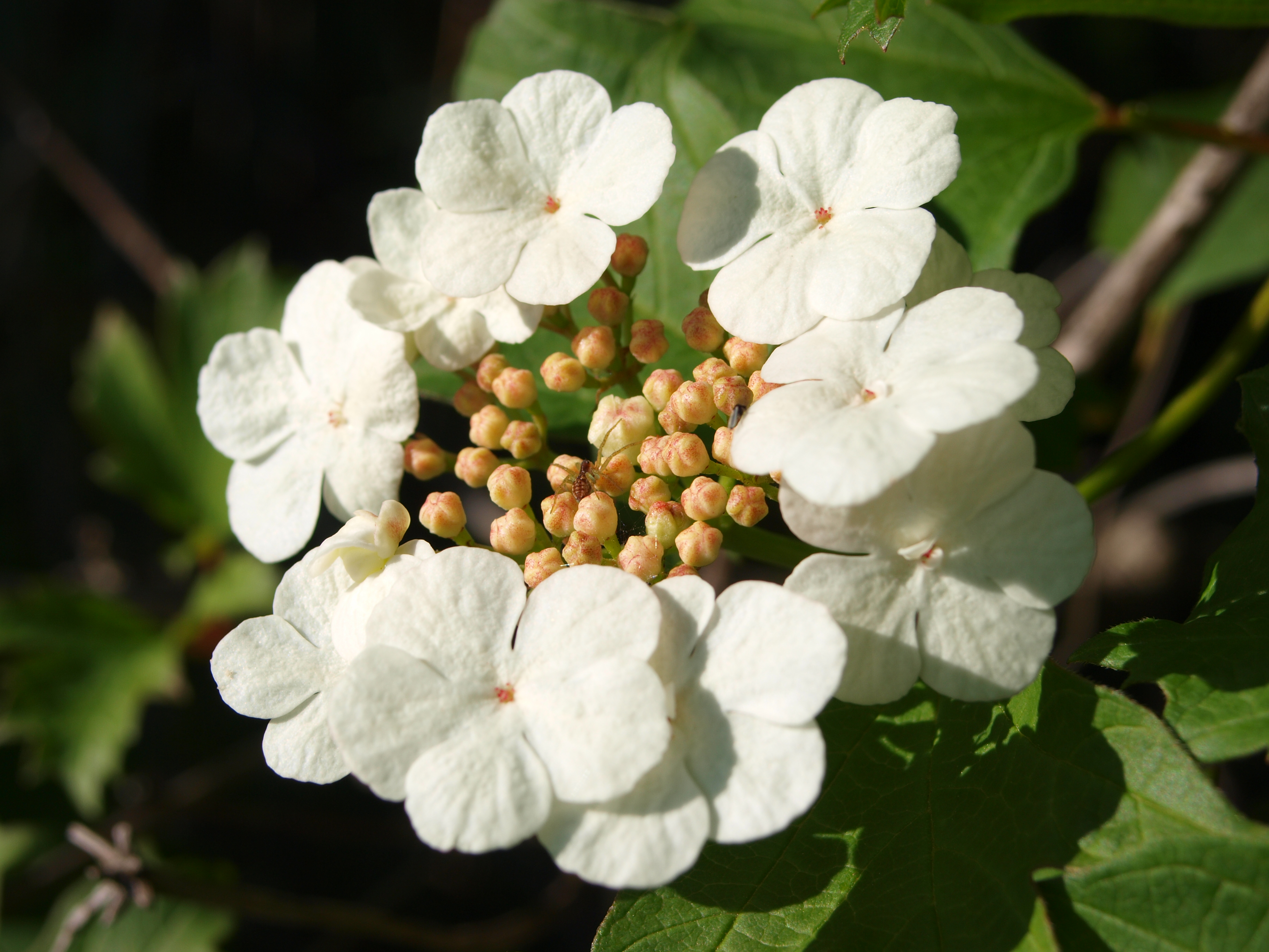 Viburnum opulus flowers